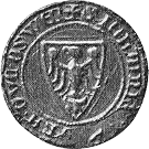 Seal of John I, Duke of Oświęcim, 1344. Legend "+ S IOHANNIS [DEI G]RA DVC OSWEN."